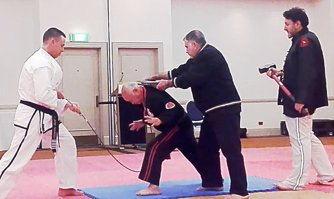 Terry Lim's demonstration bending a steel rod with Maurice Novoa Ruiz about to break tiles on Lim's back at the Australasian Martial Arts Hall of Fame Ceremony